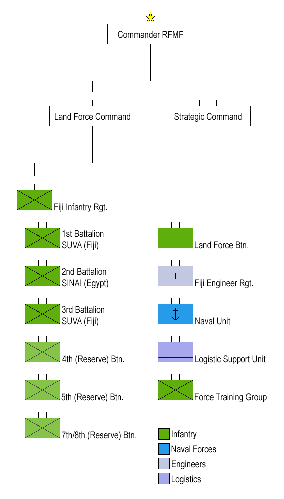 Structture of Republic of Fiji Military Forces.